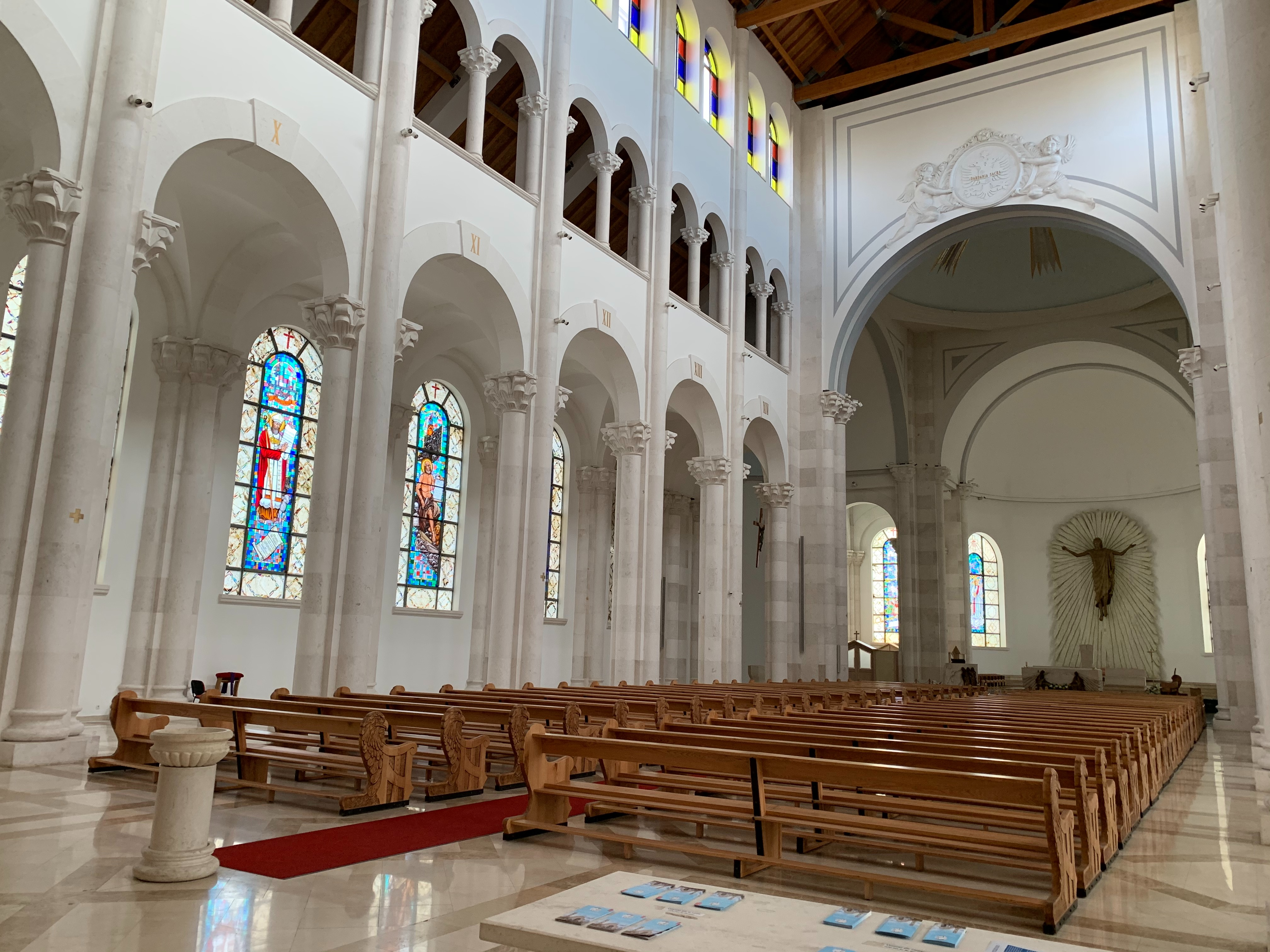 Cathedral Mother Theresa in Prishtina